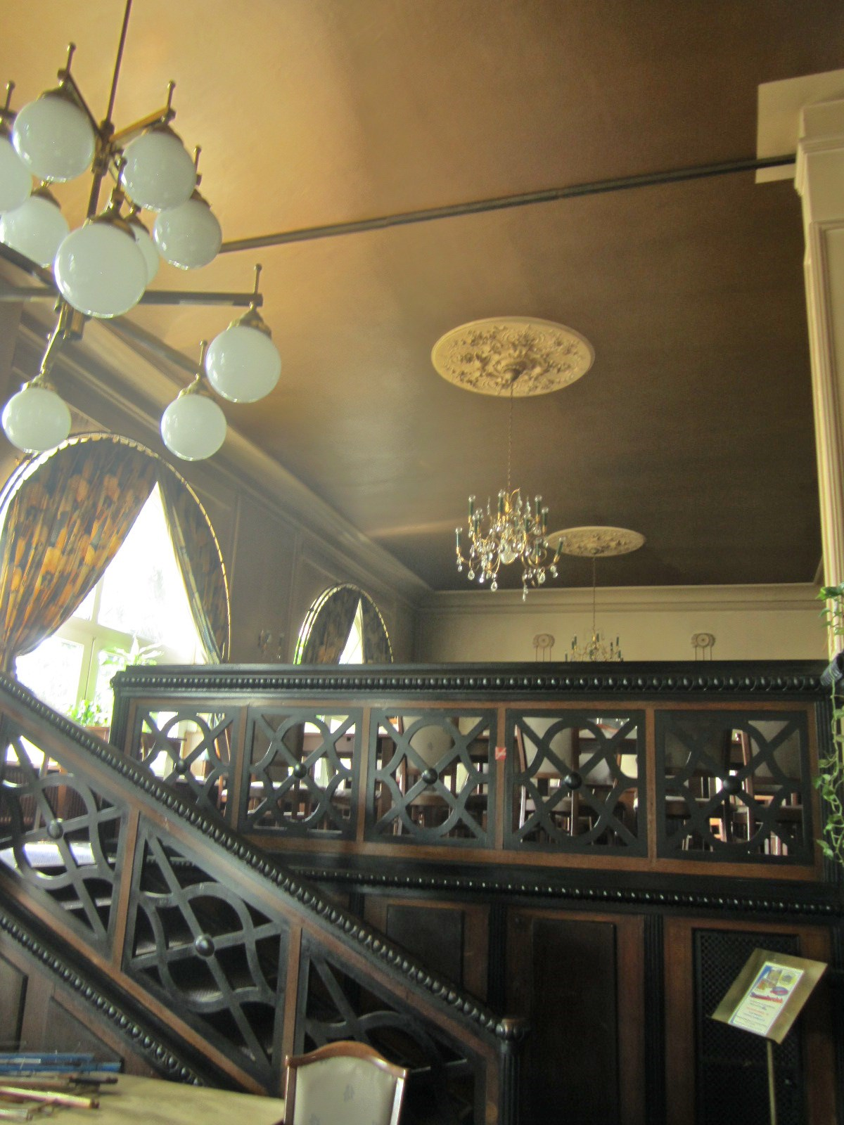 Viennese Café Wunderer before transformation into a MacDonald